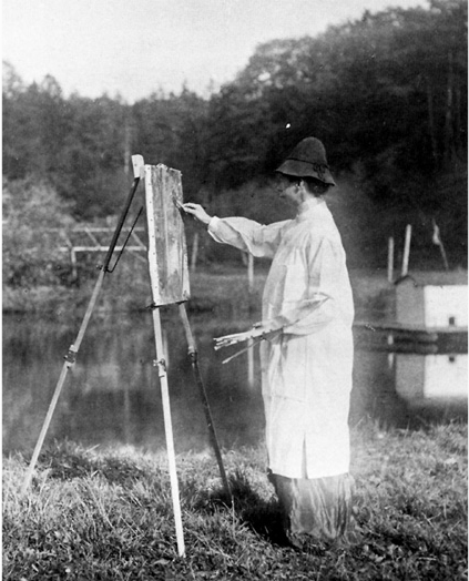 Helene Gries-Danican, german paintress